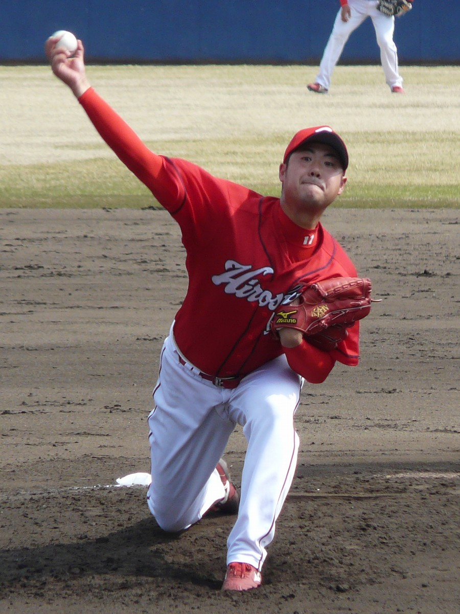 Kan Otake, pitcher of the Hiroshima Toyo Carp, at Nagoya Baseball Stadium.